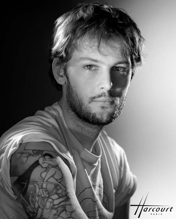 Nicolas Duvauchelle photographed by Studio Harcourt Paris